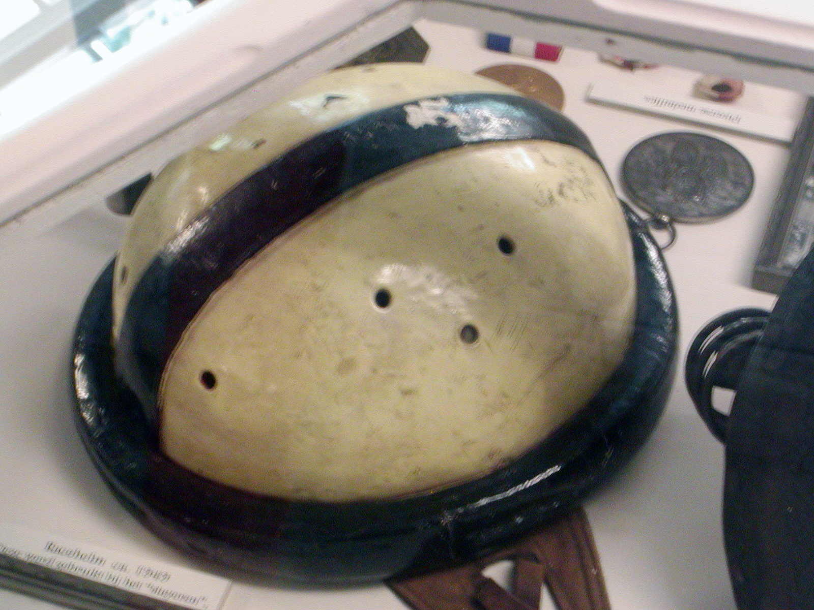 Bicycle helmet 1949, National Bicycle Museum Velorama in Nijmegen, Netherlands